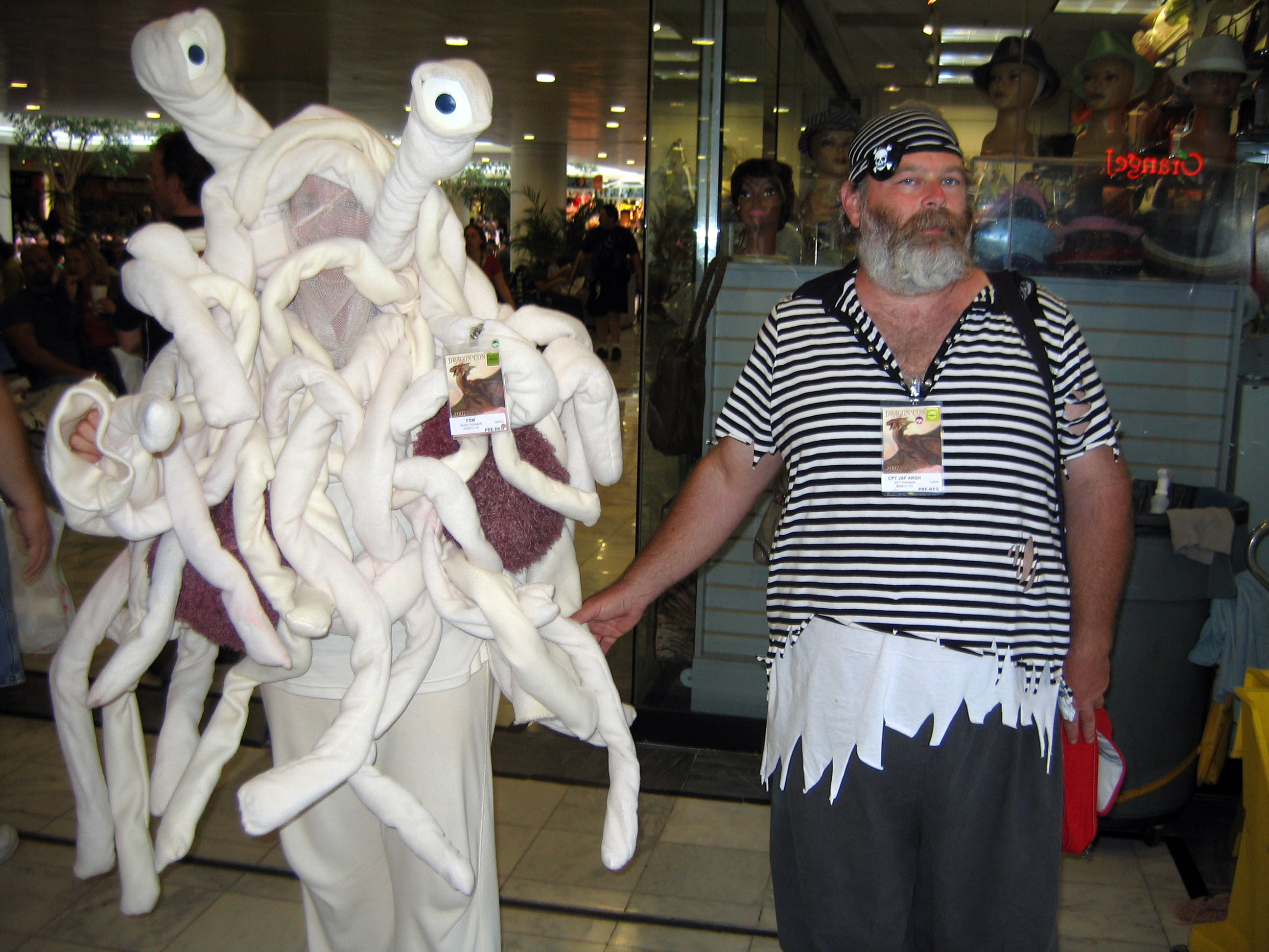 Flying Spaghetti Monster and a pirate at Dragon Con 2007.